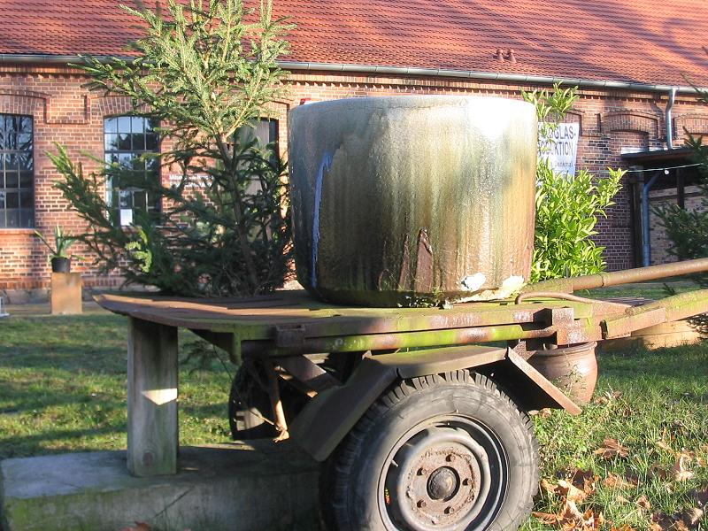 Renovated fabrication building from 1861 (museum today) in the open air museum Glashütte (german for „glassworks“). The village Glashütte is a part of the town Baruth in the district Teltow Fläming of the German state Brandenburg.